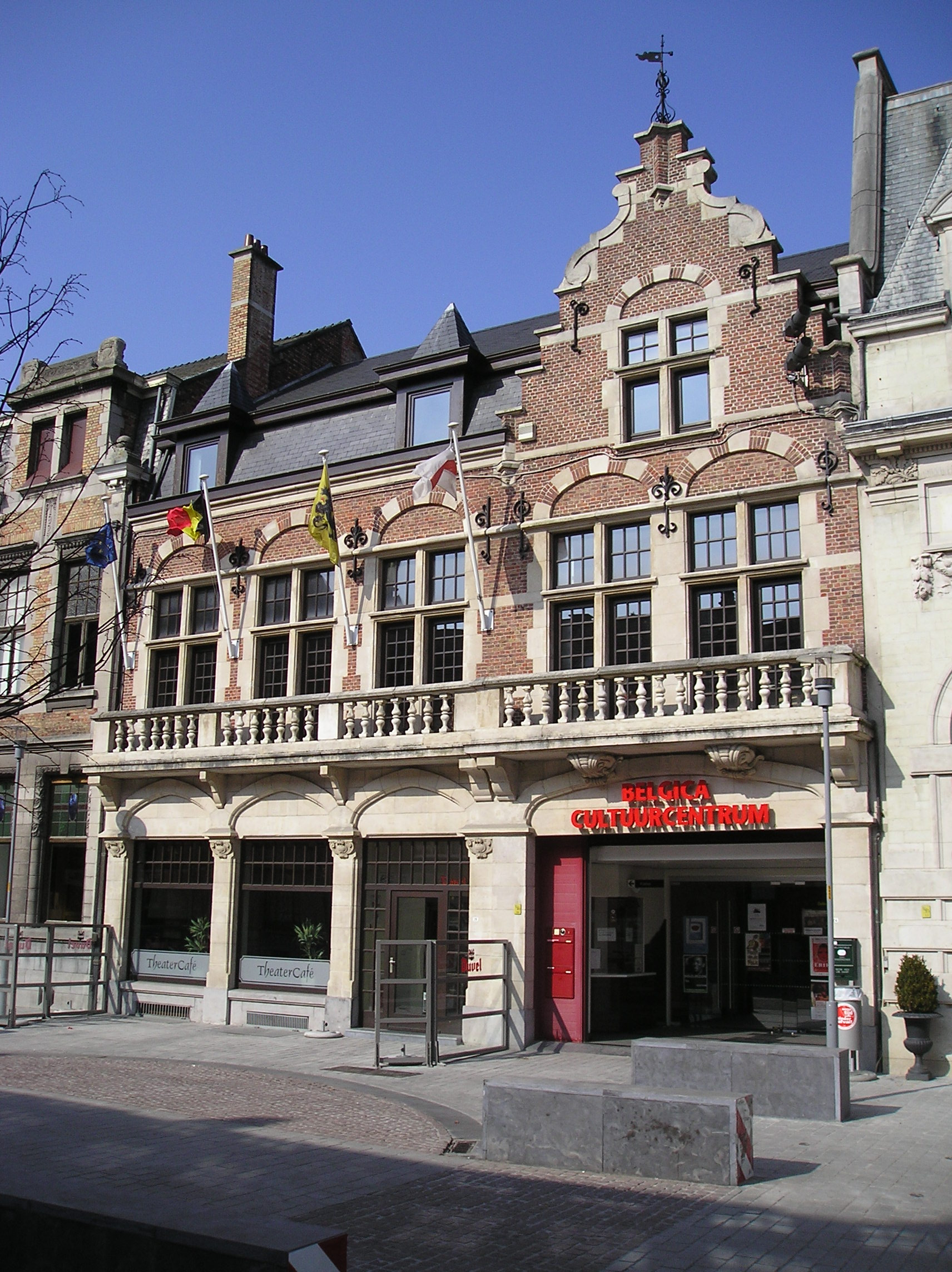 Culture center Belgica in Dendermonde (Belgium). It is situated in the Kerkstraat street, near the Grote Markt square.